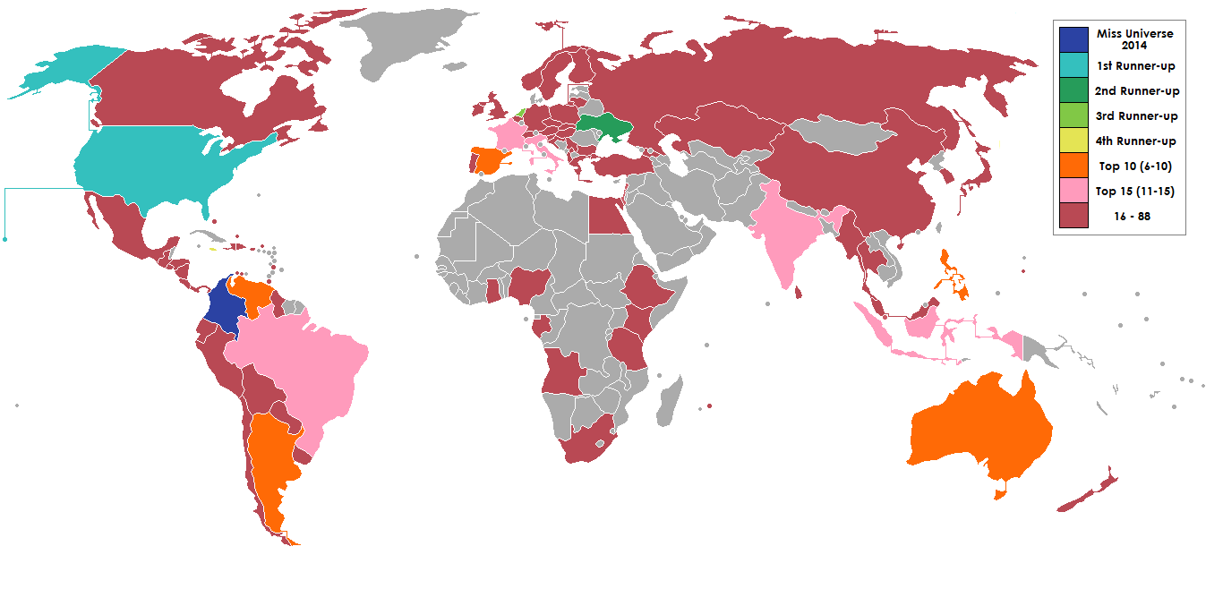 Miss Universe 2014 participant countries status.